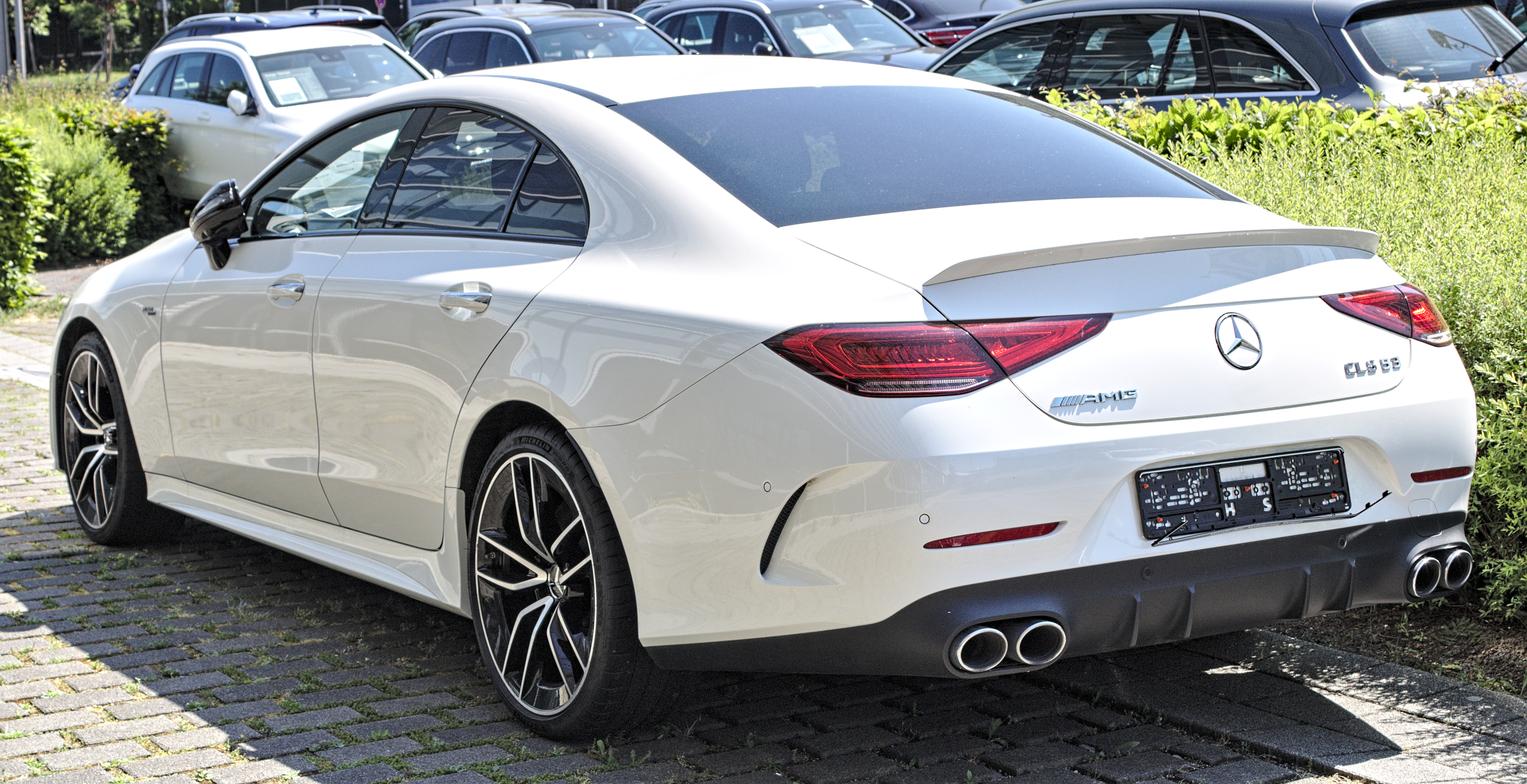 Mercedes-AMG_CLS_53 in Stuttgart